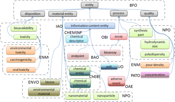 An overview of the upper levels and integration of external ontology content together with manually annotated (ENM) content for the eNanoMapper nanomaterial ontology